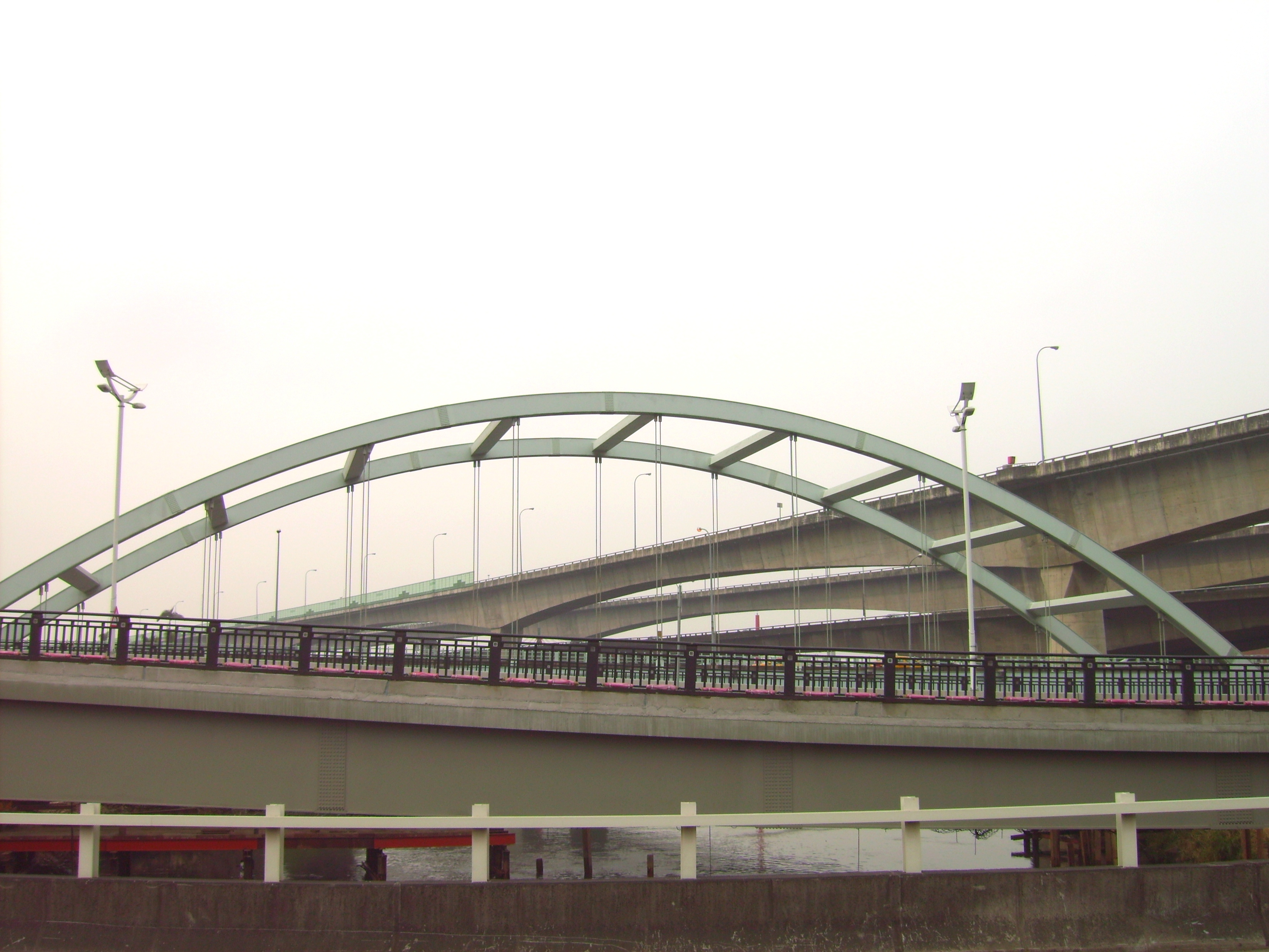 In Taipei City, Zhongshan 2nd Bridge is no longer exist, and it has been replaced by Zhongshan Convenience Bridge.